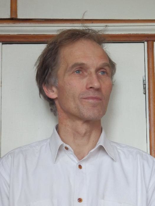 Image of Oldrich Selucky in 2012.